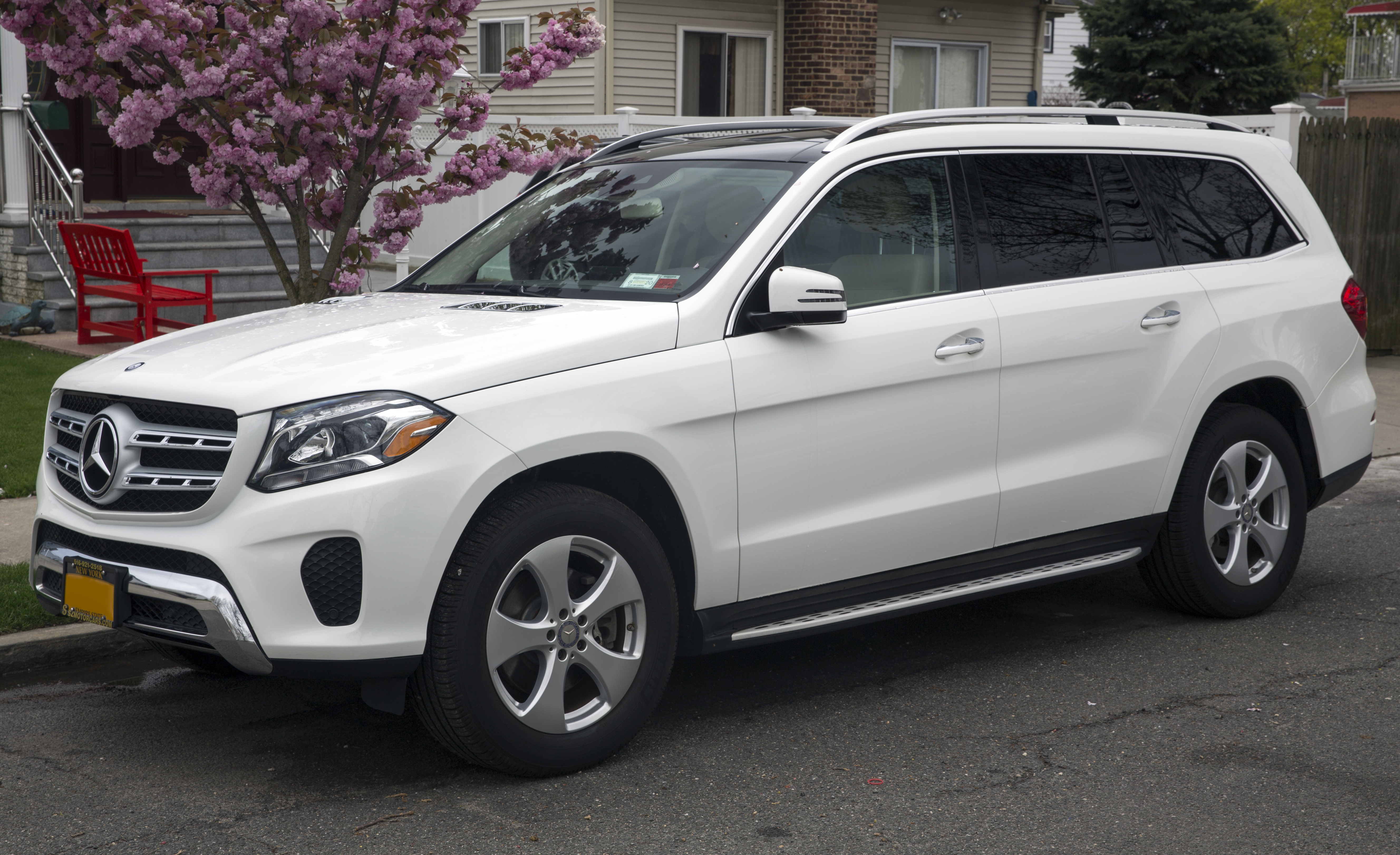 A 2017 Mercedes-Benz GLS 450 (X 166) 4MATIC wagon.